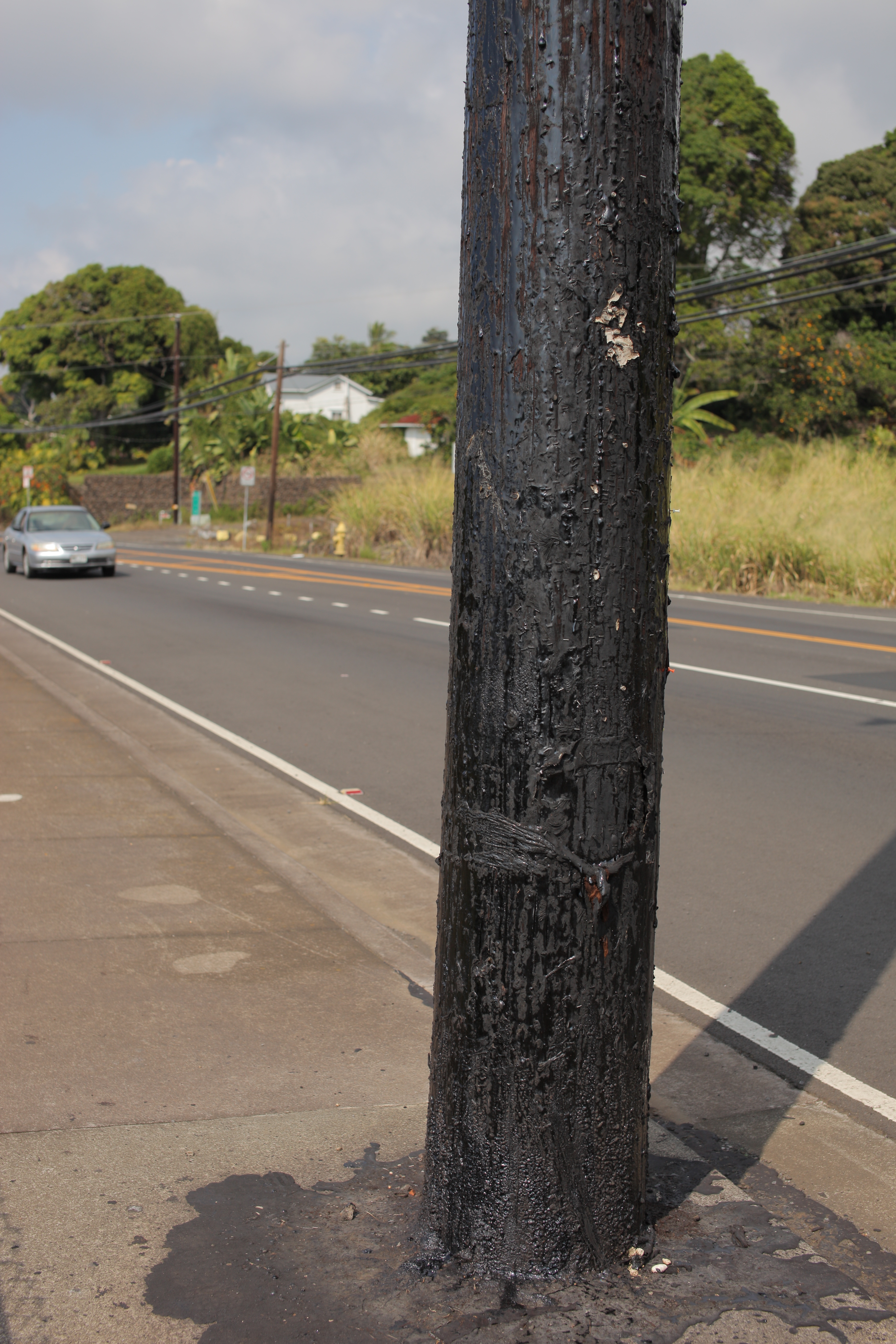 Telephone pole soaked in Carbolineum. Due to the high temperatures in Hawaii, the tar oil concentrates at the bottom of the pole.